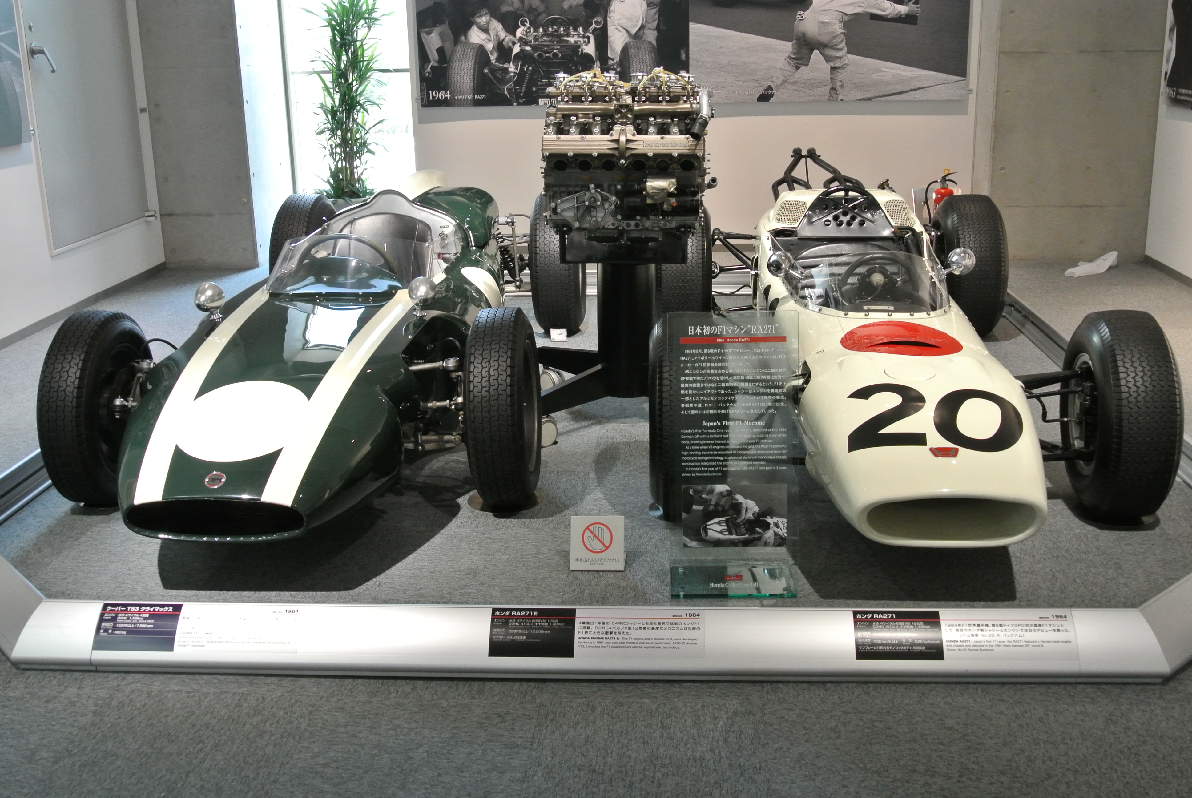 RA271 in the Honda Collection Hall.